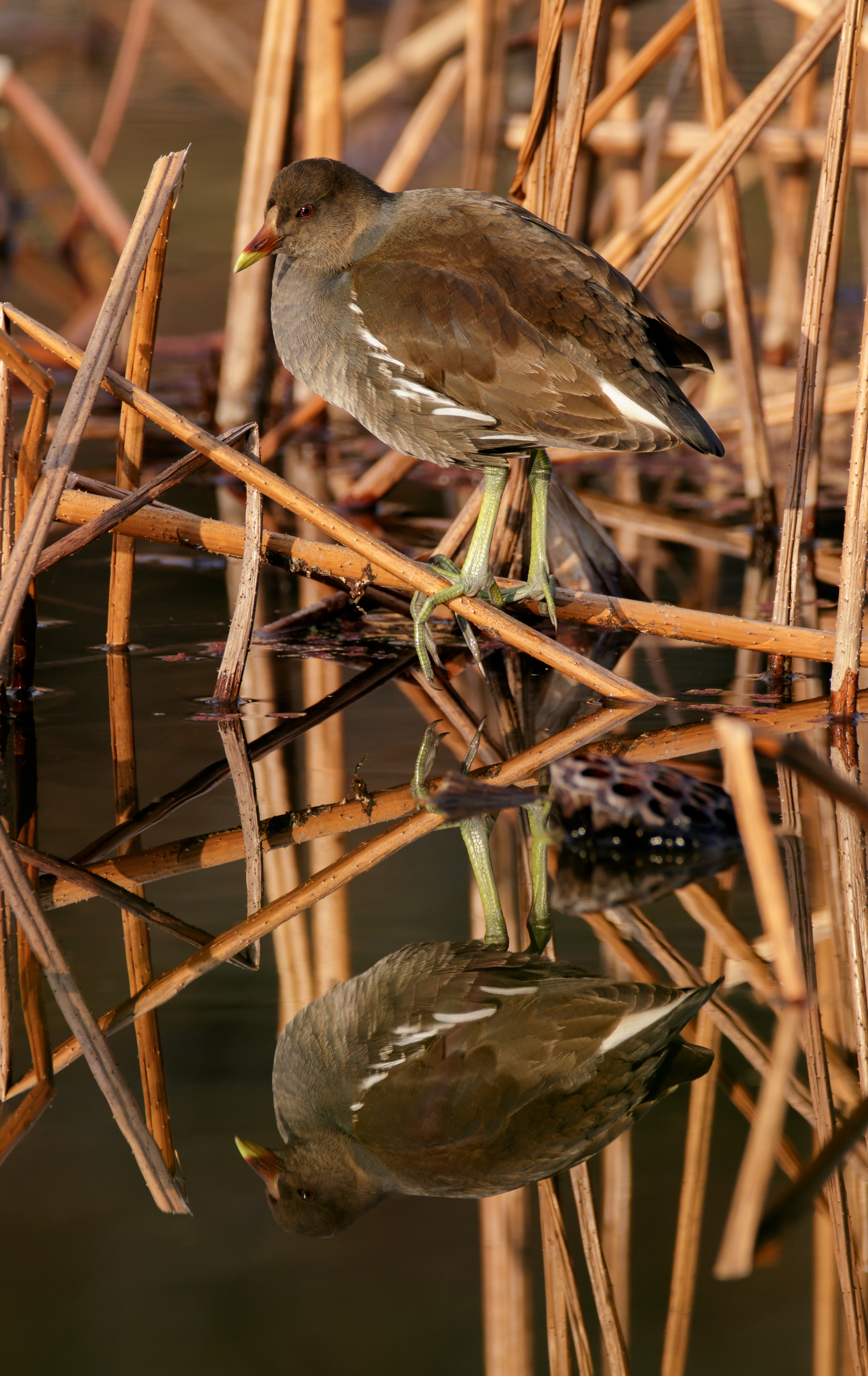 Common moorhen in Suita, Osaka.